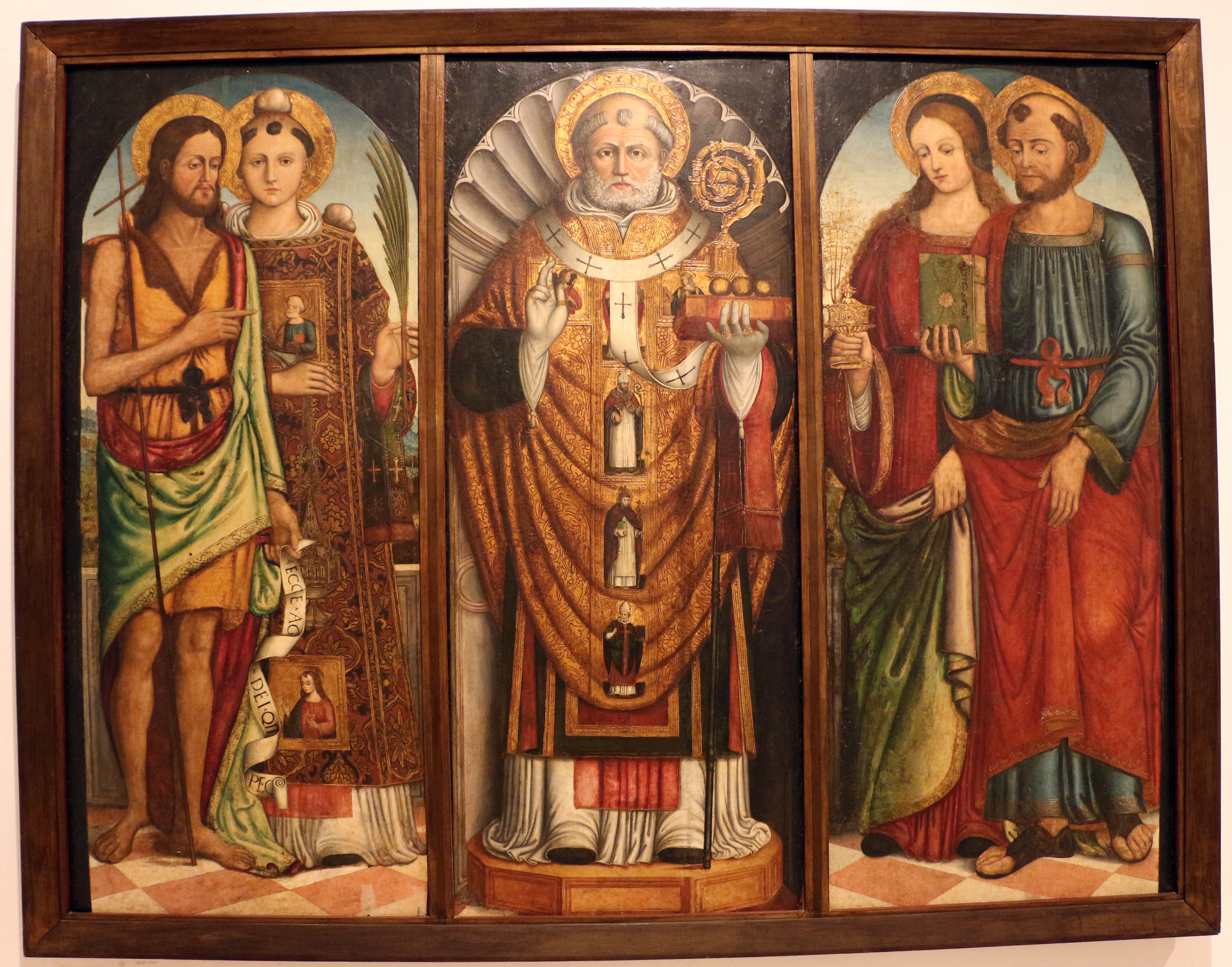 Dominican Church and Monastery in Dubrovnik - Museum